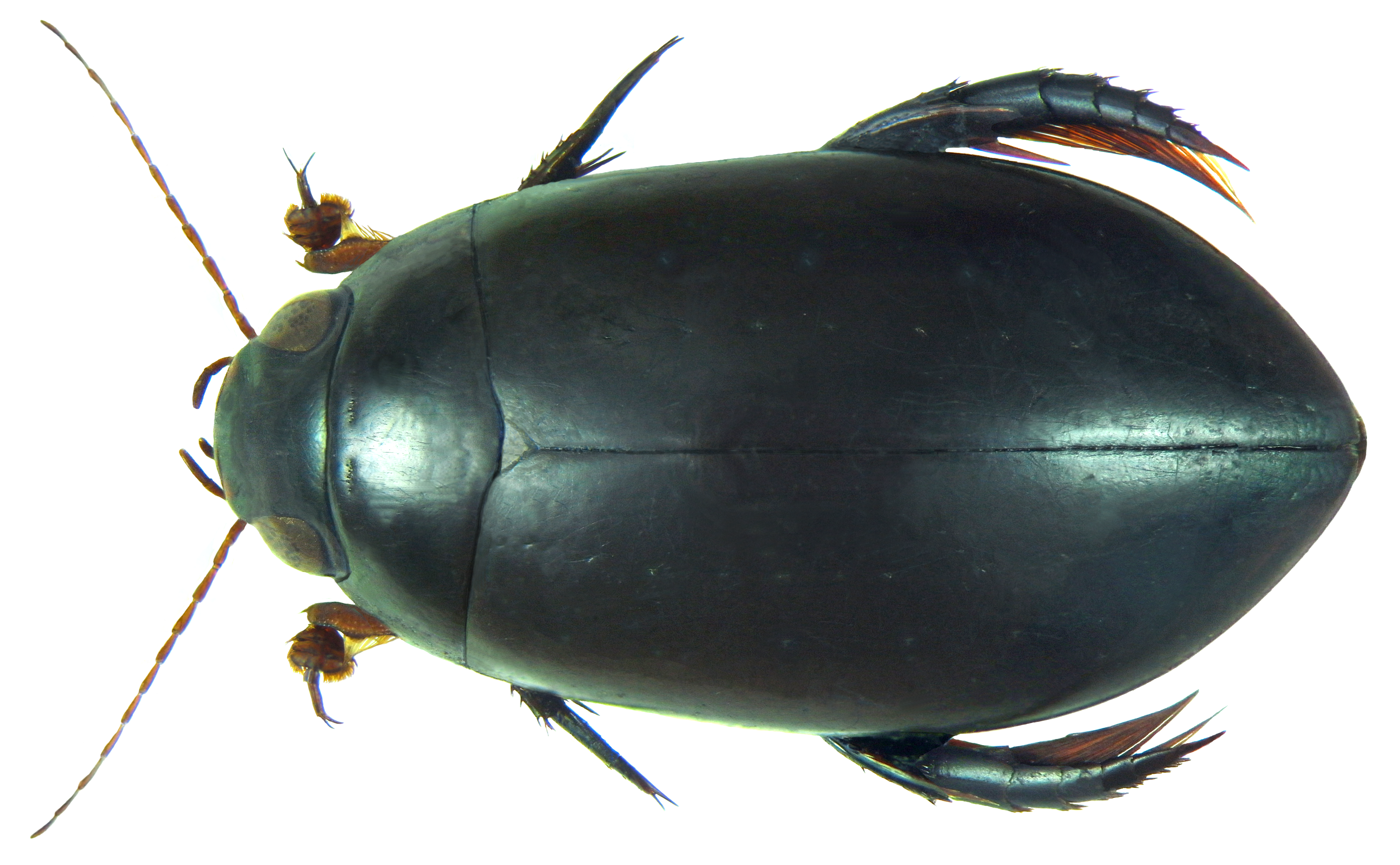 Dorsal view of Cybister dehaanii Familie: Dytiscidae Groesse: 14,3 mm Fundort: Laos, Kham Mouan Prov., Nakai vill. env., 70 km NNE Muang Khammouan, 500-600 m leg. M.Strba, 7.-25.V.2002; det. Hendrich Photo: U.Schmidt, 2012